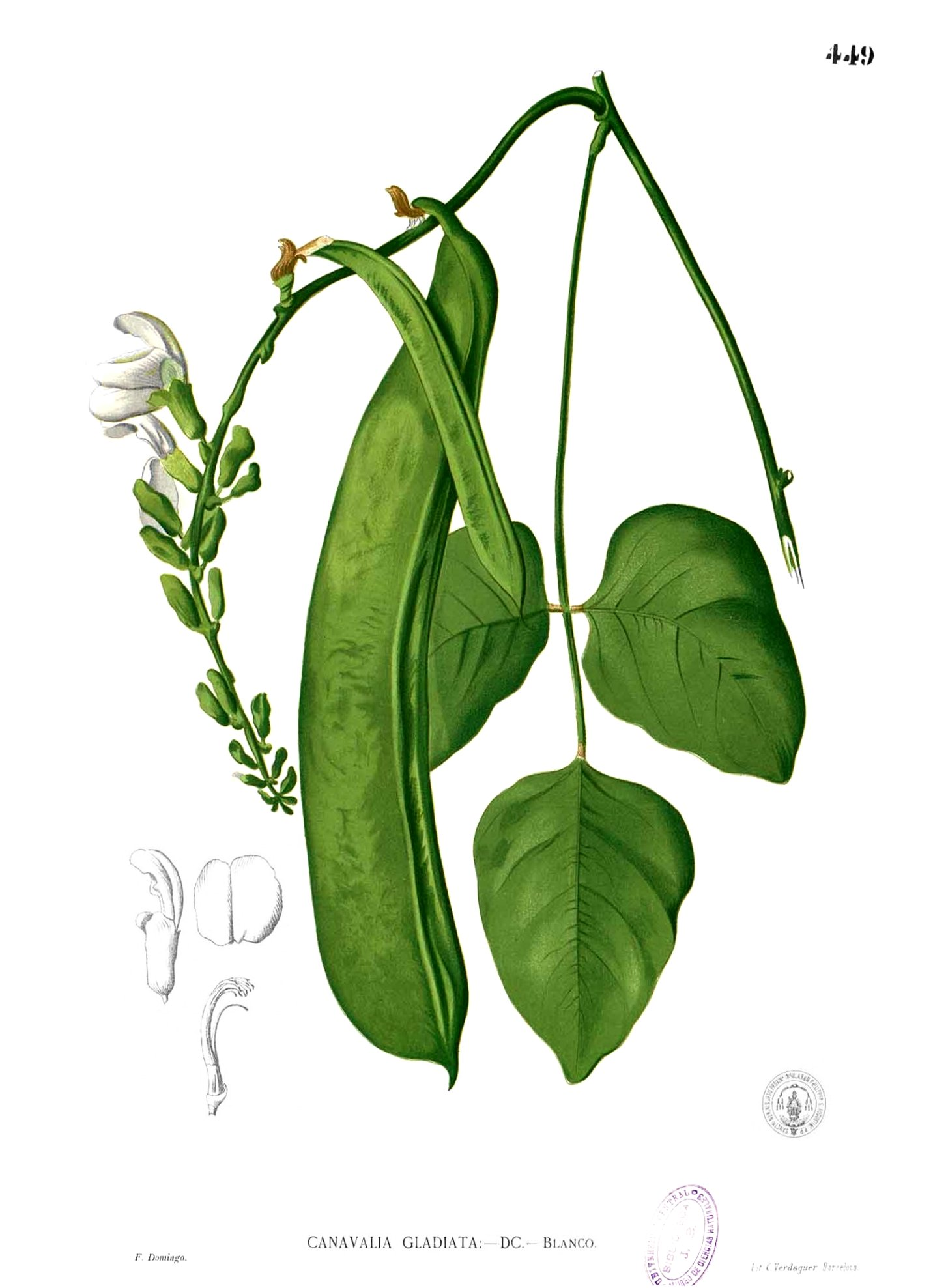 Plate from book